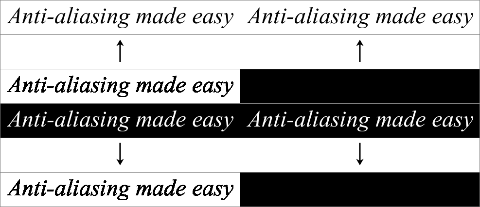 Two images with the same transparency mask but a different overlay (centre), composed against a white background (top) and shown as they would appear in a viewer that does not recognise alpha channels ("restricted viewer": bottom).